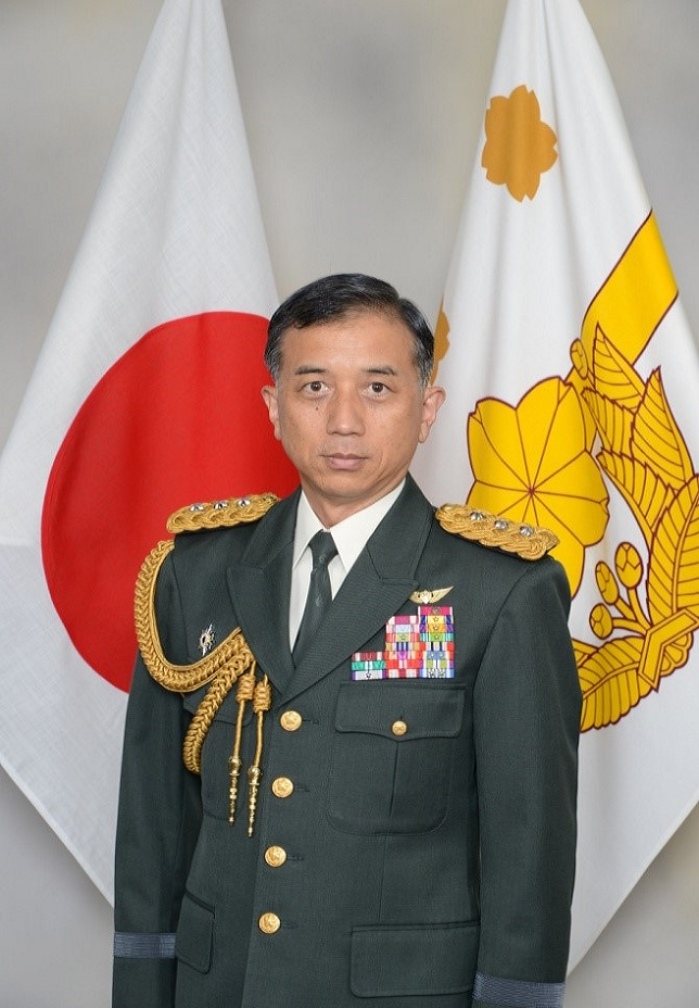 LTG Kōichi Isobe 37th Commander of Eastern Army (Japan) , 2013